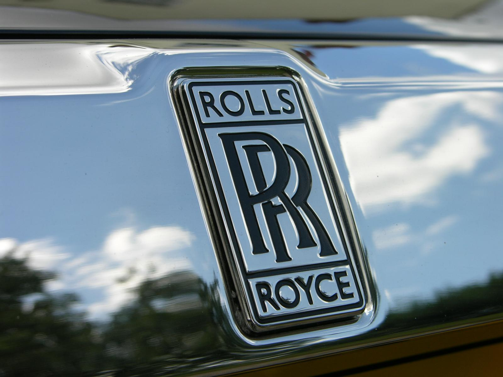 2007 Rolls Royce Phantom Drophead